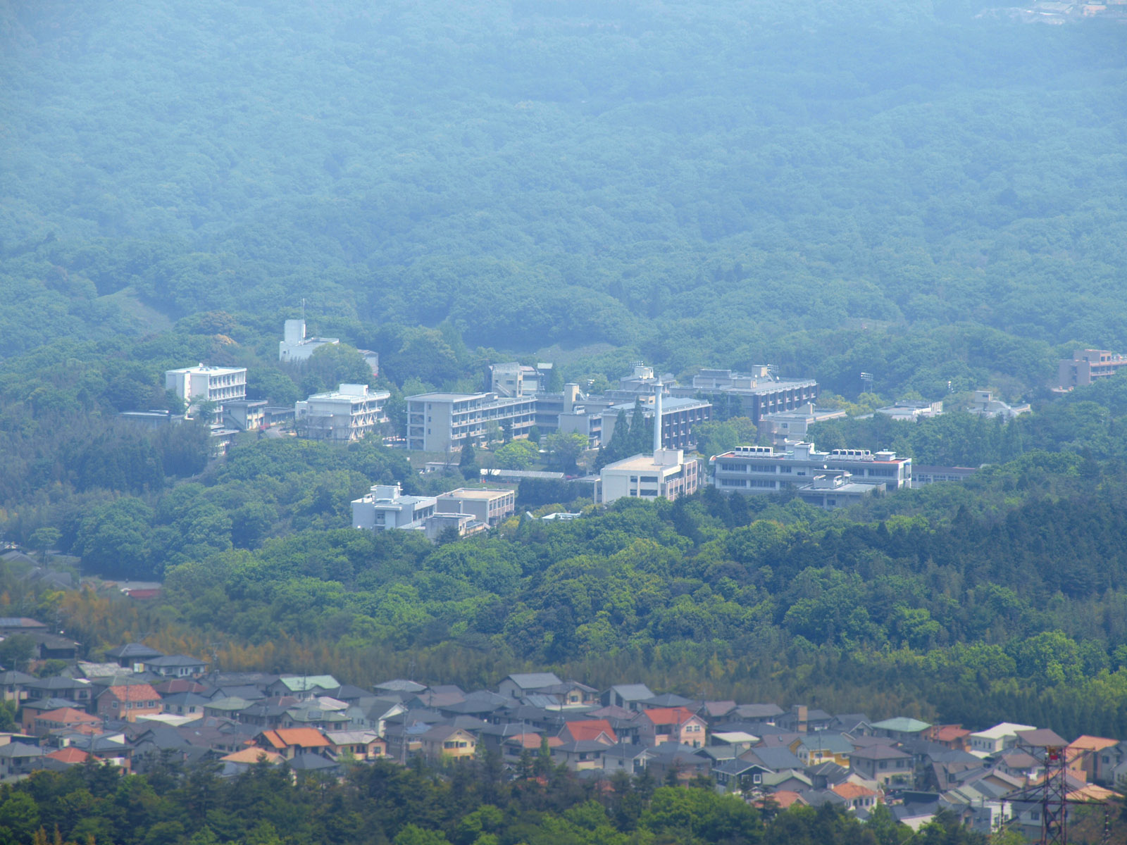 Oita University, Oita City, Oita Prefecture